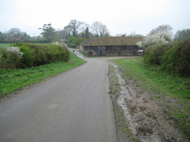 Westwick Row Westwick Row is one of those places where the name of the place and the road are the same. In the dip is one of the outbuildings of Westwick Row Farm. In the 1883 Edition of the Ordnance Survey mapping the farm appeared as Westwickrow Farm, but from the 1899 through to the 1938 Editions it was shown as just Westwick Farm.